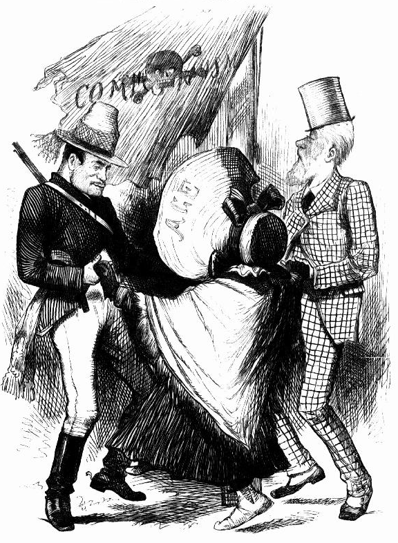 Our Rulers; political cartoon depicting Ned Kelly, Graham Berry, and a personification of The Age newspaper dancing around a communist flag.